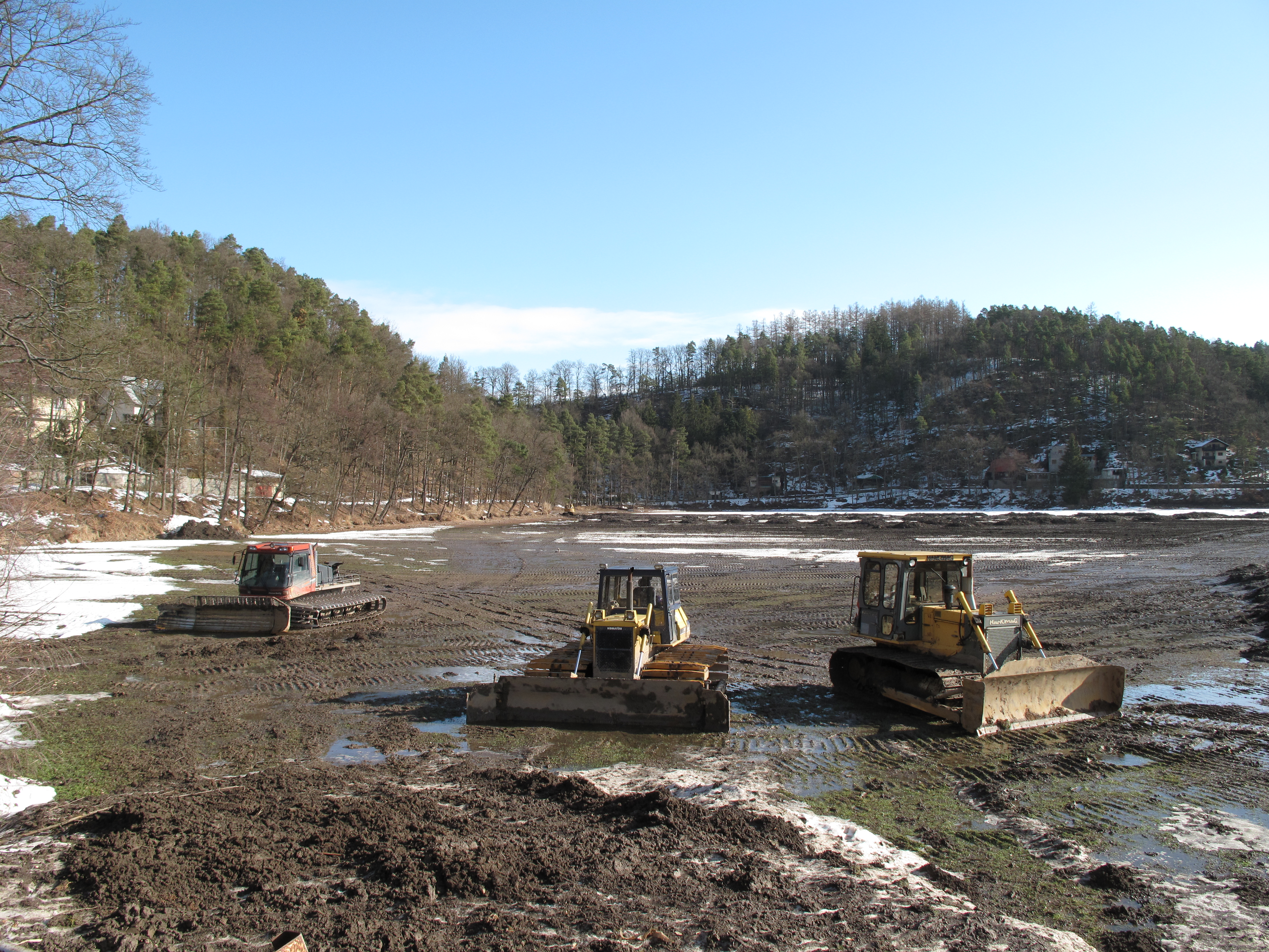 Silt removal in Propast Pond with bulldozers, Hradec (Stříbrná Skalice), Prague-East District, Czech Republic. This photograph was taken within the scope of the 'Czech Municipalities Photographs' grant.